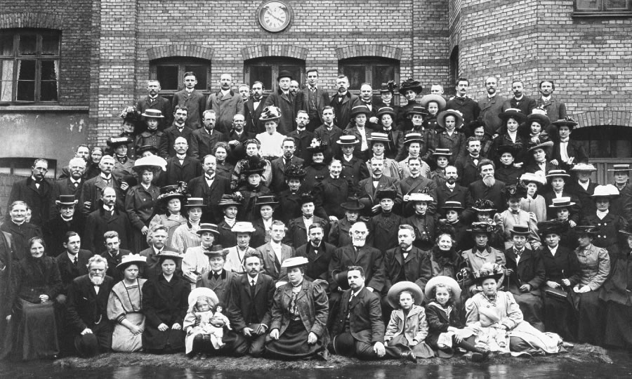 C.T. Russell in Kopenhaga 1909